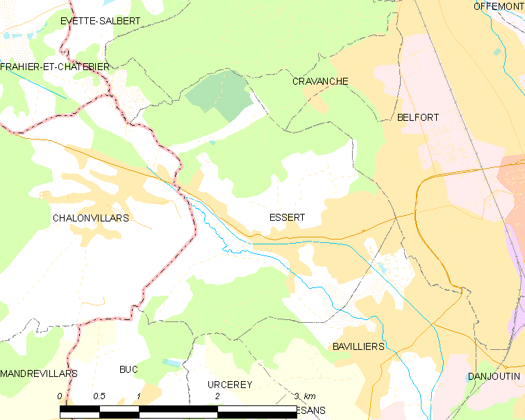 Map of French municipality Essert